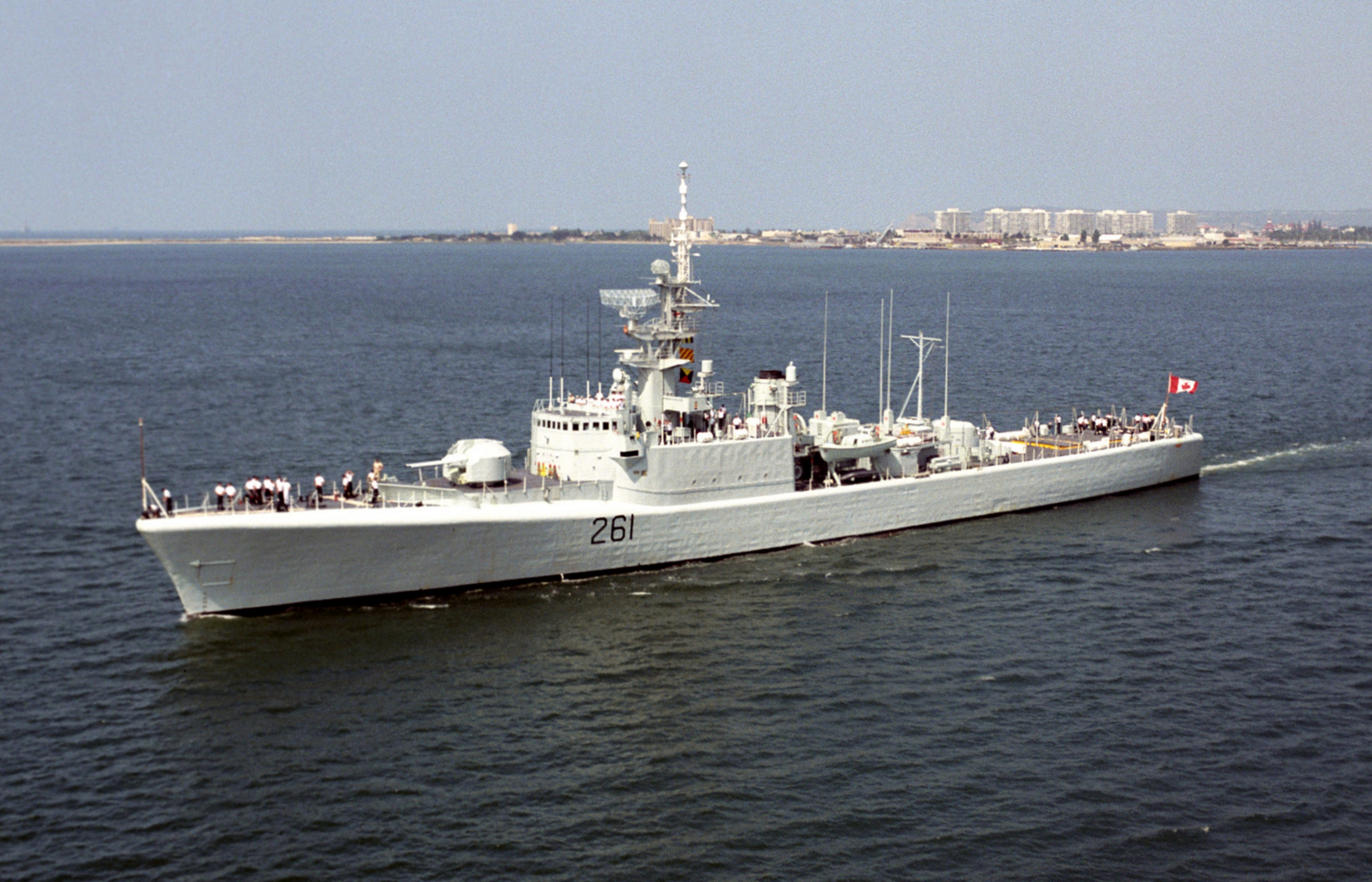 The Royal Canadian Navy Mackenzie-class destroyer escort, HMCS Mackenzie (DDE 261), passing along San Diego, California (USA). The ship was participating in the exercise "RIMPAC '92".